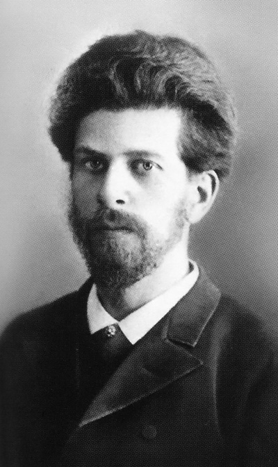 Roman Klein, Russian architect, photo of 1890s.